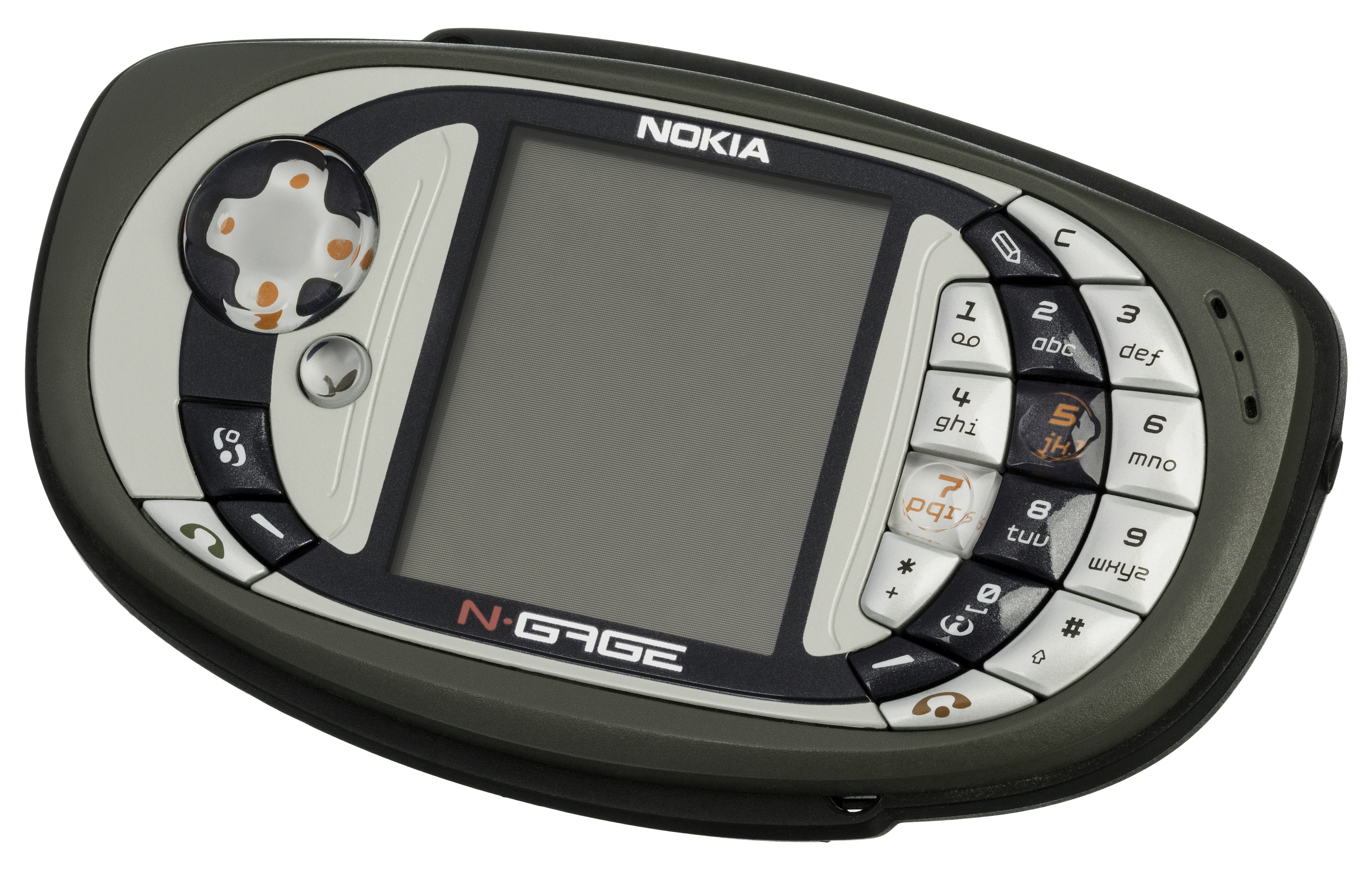 The Nokia N-Gage QD, a device that combined a gaming console and a cellphone. This version is the updated model, the QD, that followed the wonky original model in 2004. The update did little to improve the N-Gage's standing, leading to the device being discontinued a year later.